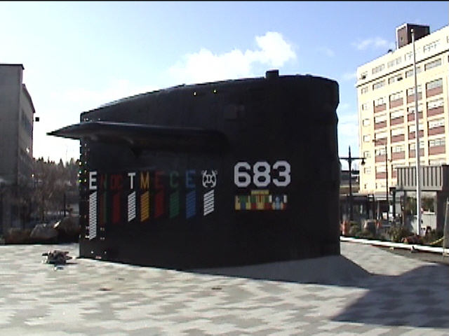 The sail of the USS Parche (SSN 683) at Bremerton's Harborside Park.